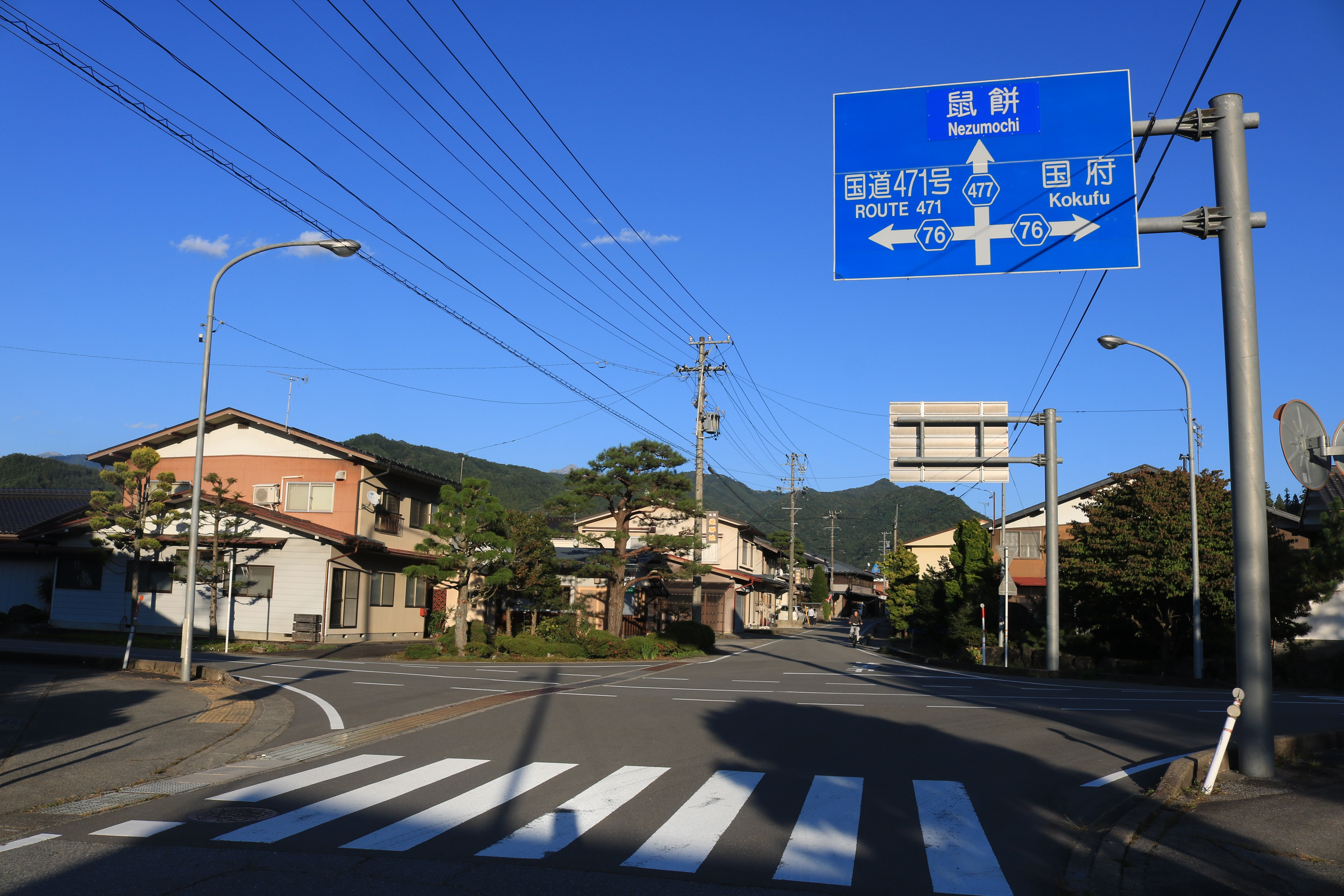 Gifu Prefectural Road Route 76 and Gifu Prefectural Road Route 477 in Hongo, Kamitakara-cho, Takayama, Gifu prefecture, Japan.